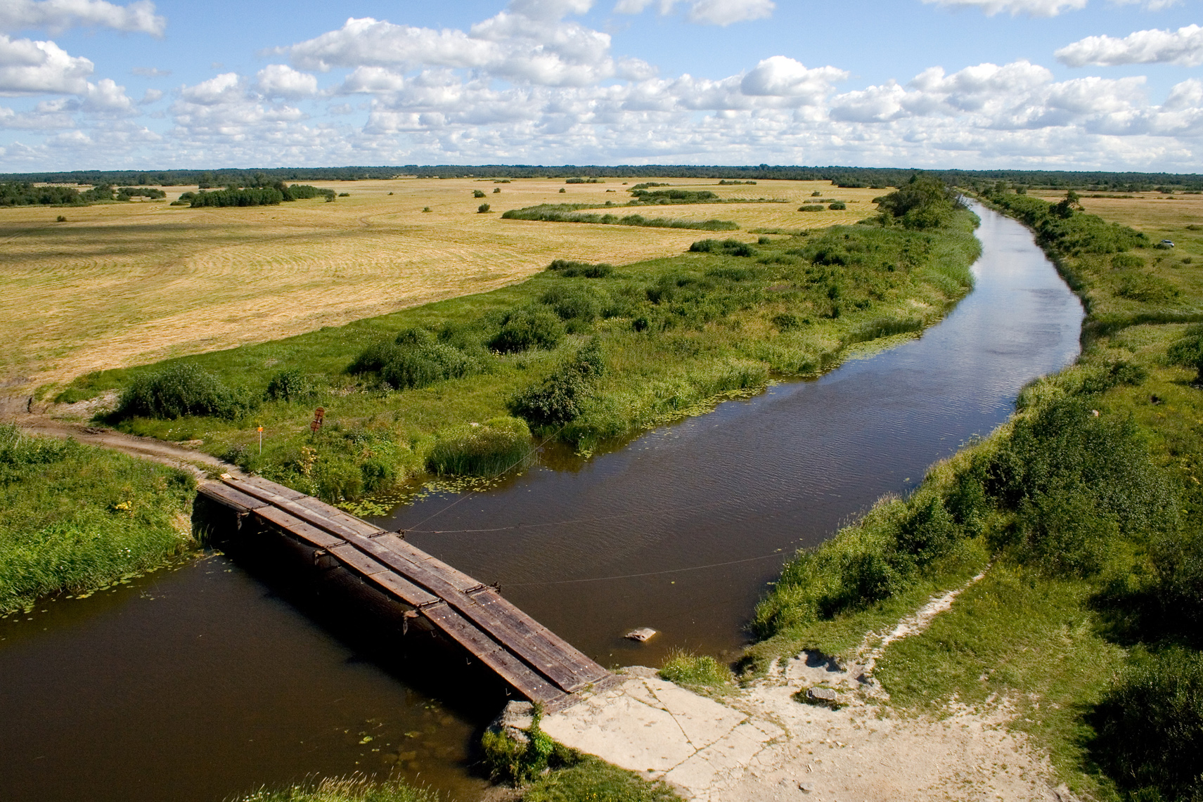 Matsalu National park, Kasari river, Kloostri meadow. View from the Kloostri watchtower